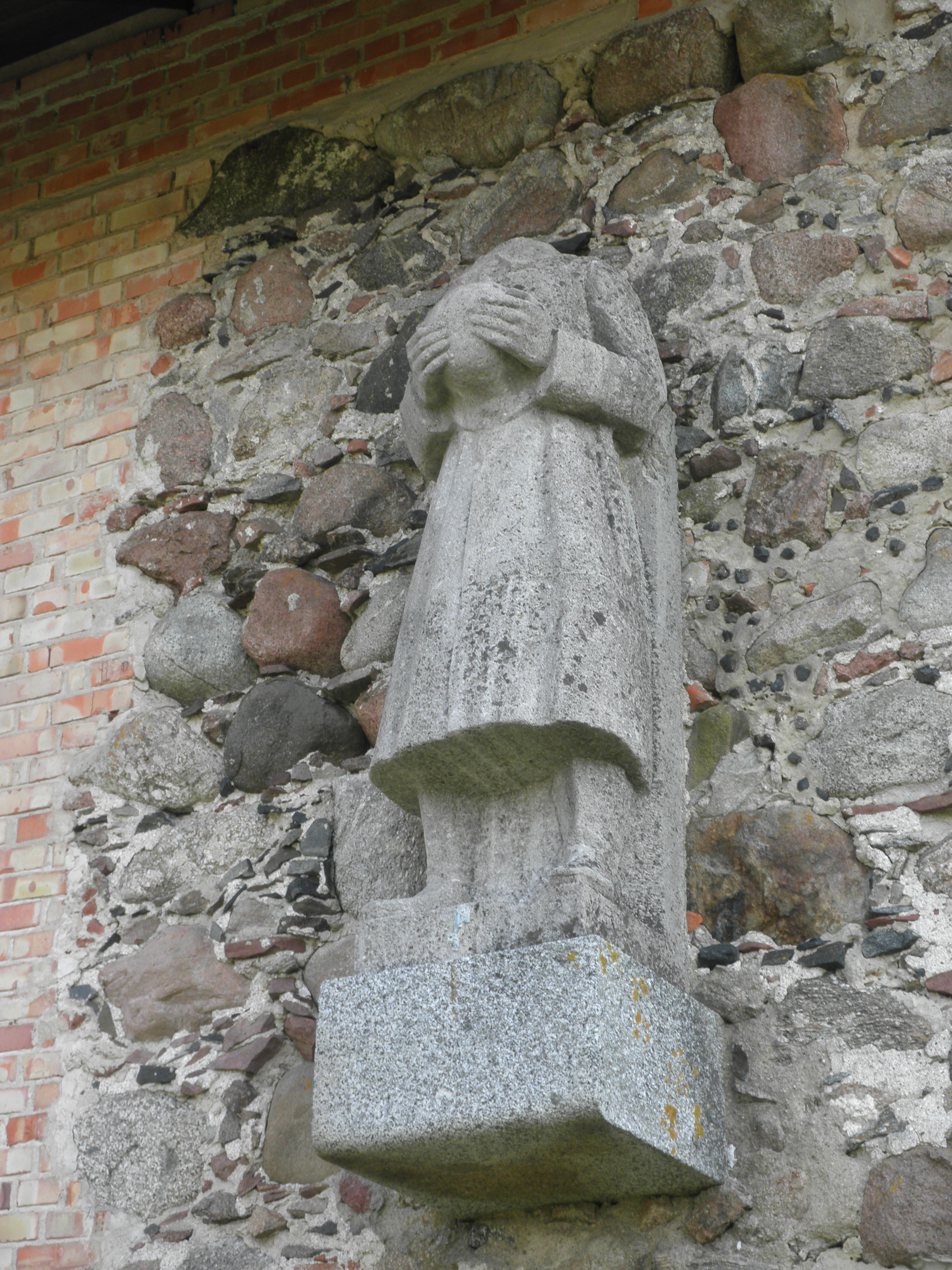 War Memorial (1938) in Turgenewo in Oblast Kaliningrad in Russia